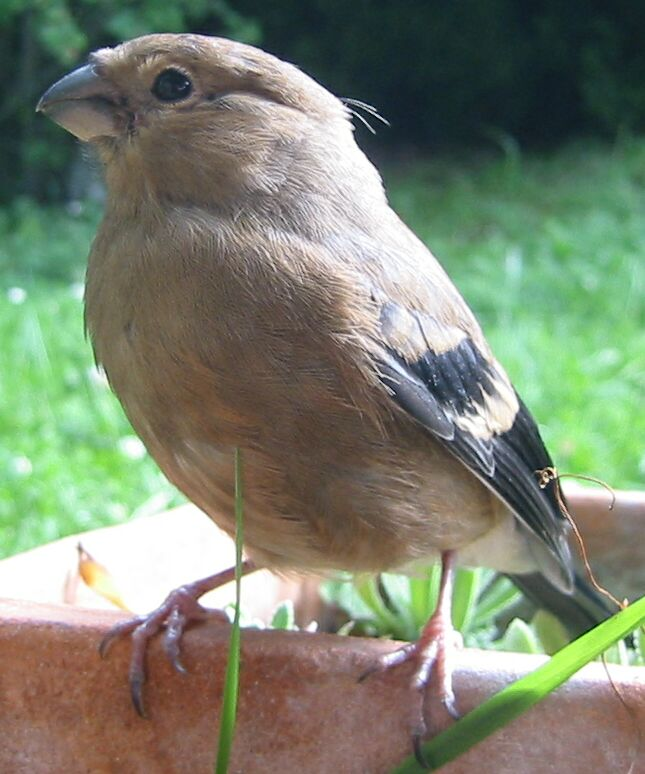 young Eurasian Bullfinch